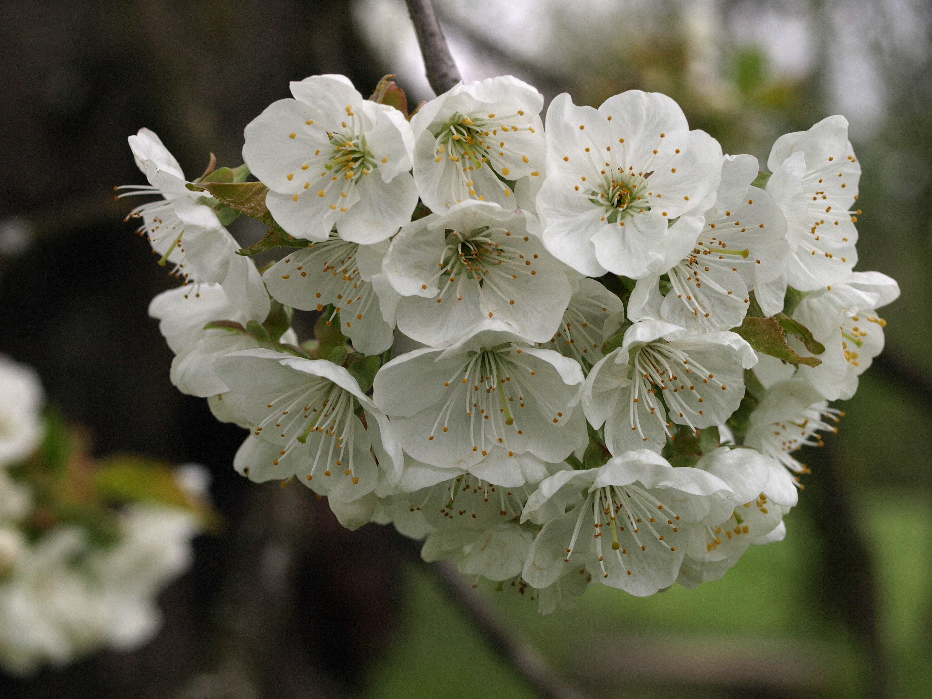 Sweet Cherry flowers